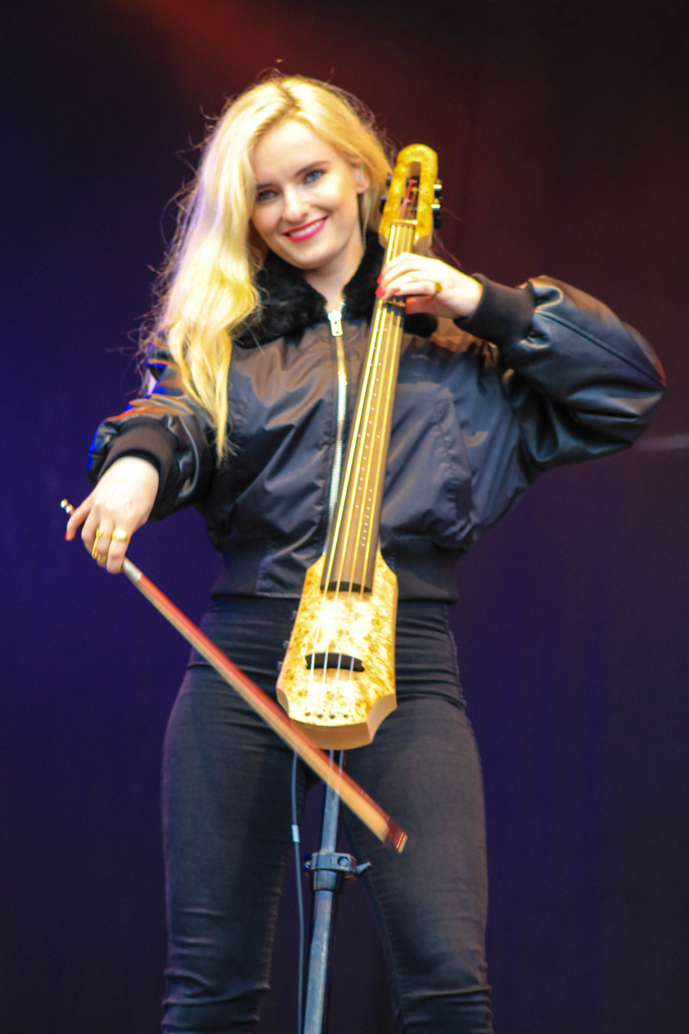 Clean Bandit at festival T in the Park, UK, 2014.